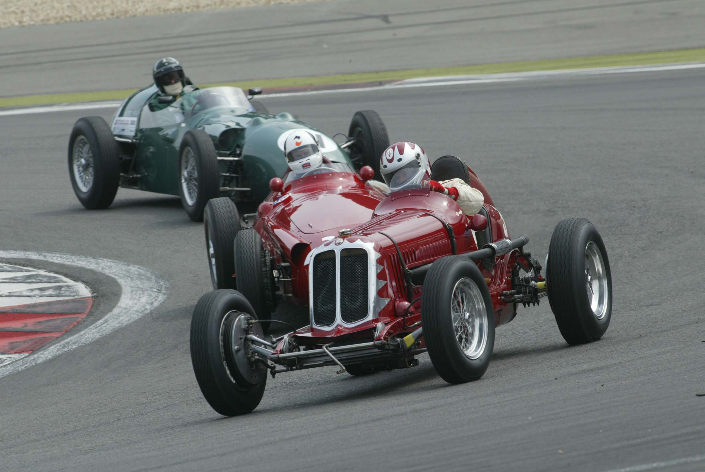 37. AvD-Oldtimer-Grand-Prix 2009 at the Nürburgring/Germany